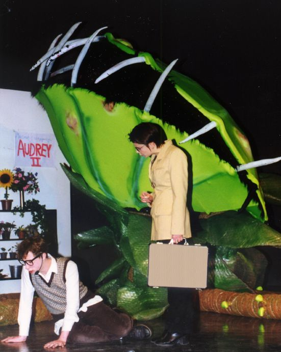 Scene from the musical ""Little Shop of Horrors" A salesman persuades Seymour to sell offshoots off the carnivorous plant all over the world. Audrey2, the ever growing plant is looming in the background.